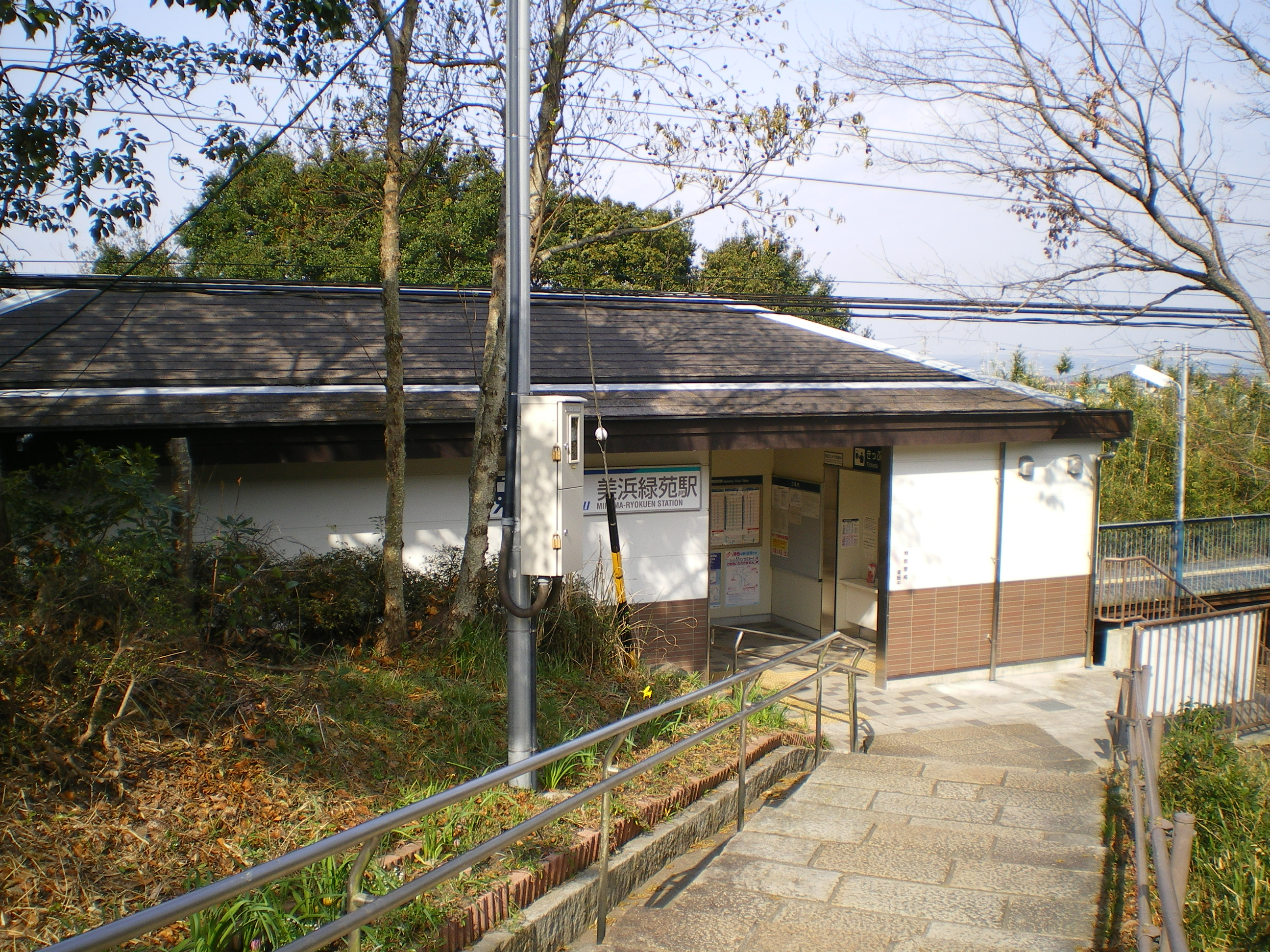 Nagoya Railroad Chita Line Mihama Ryokuen Station Building